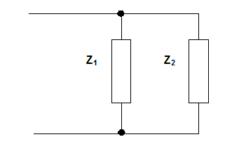 Impedances in parallel